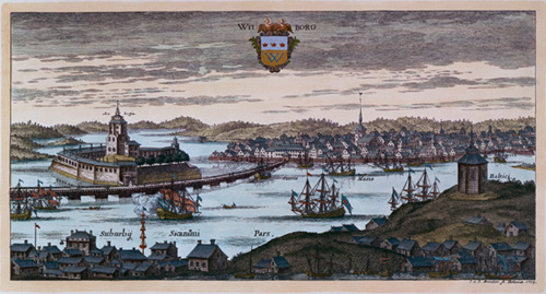 Viborg, Sweden (now Vyborg, Leningrad Oblast, Russia) in 1709